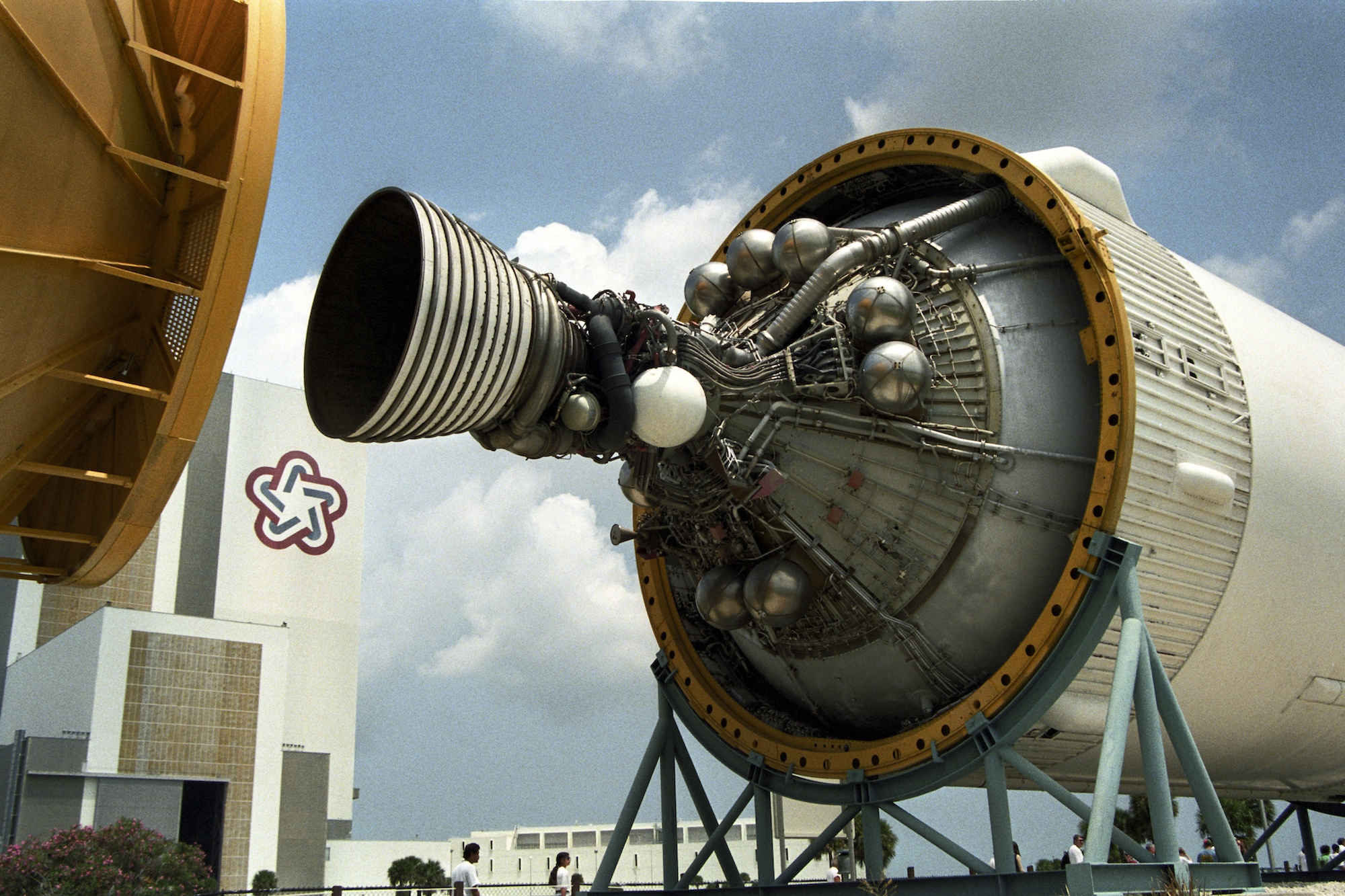 Rocketdyne J-2 engine of third stage S-IVB of Saturn V rocket, on display at Kennedy Space Center.